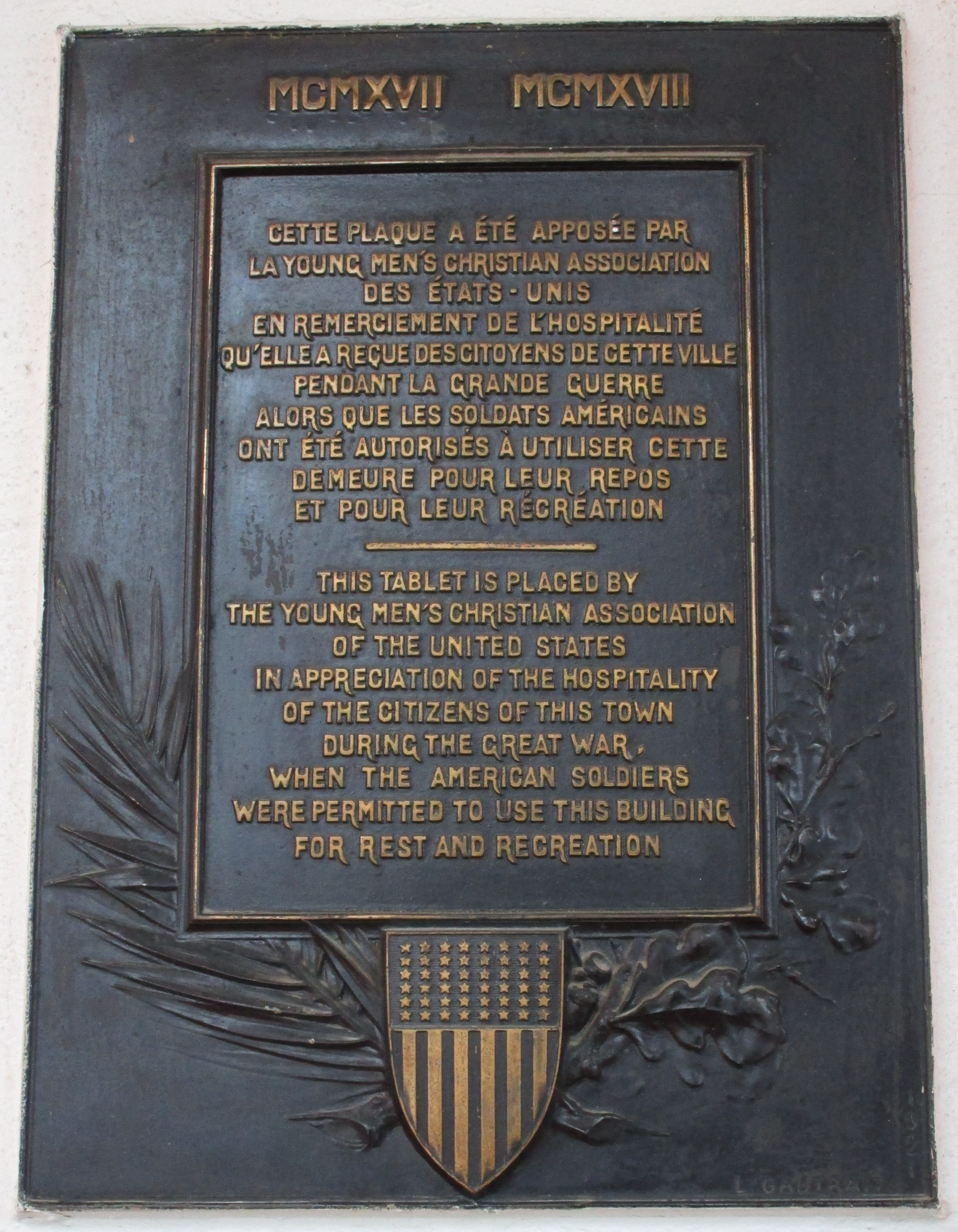 The memorial stone on the wall of the casino of Challes-les-Eaux after the World War I to remember the stay of american troops in the town during the conflict.